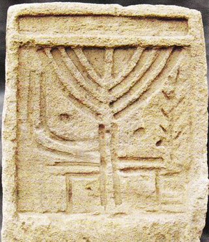 image khazar grave